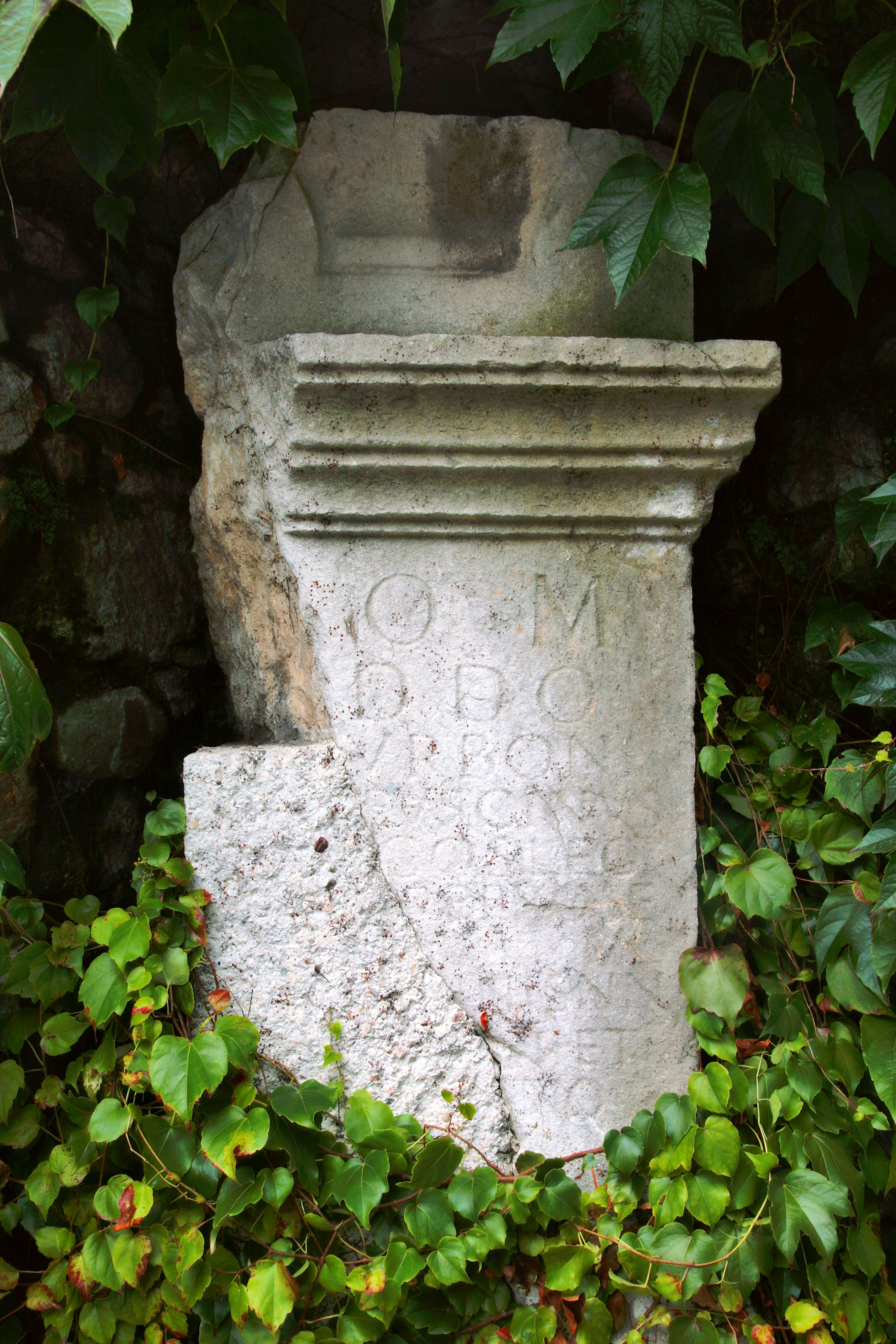 more data and Images in Ubi Erat Lupa